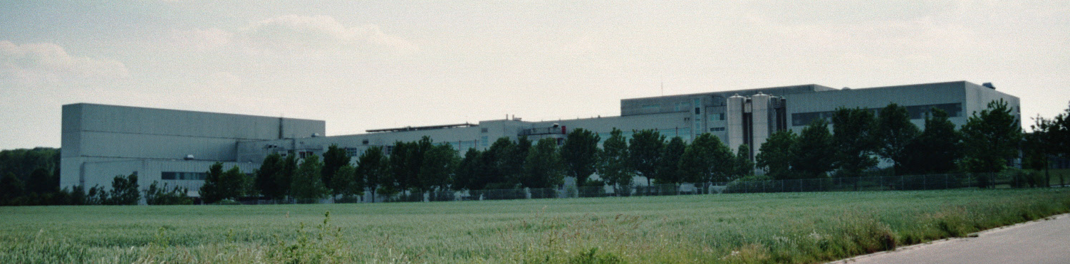 Conditorei Coppenrath & Wiese Mettingen, Germany.